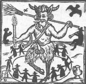 Puck, AKA Robin Goodfellow. Title page image of Robin Goodfellow: His Mad Pranks and Merry Jests